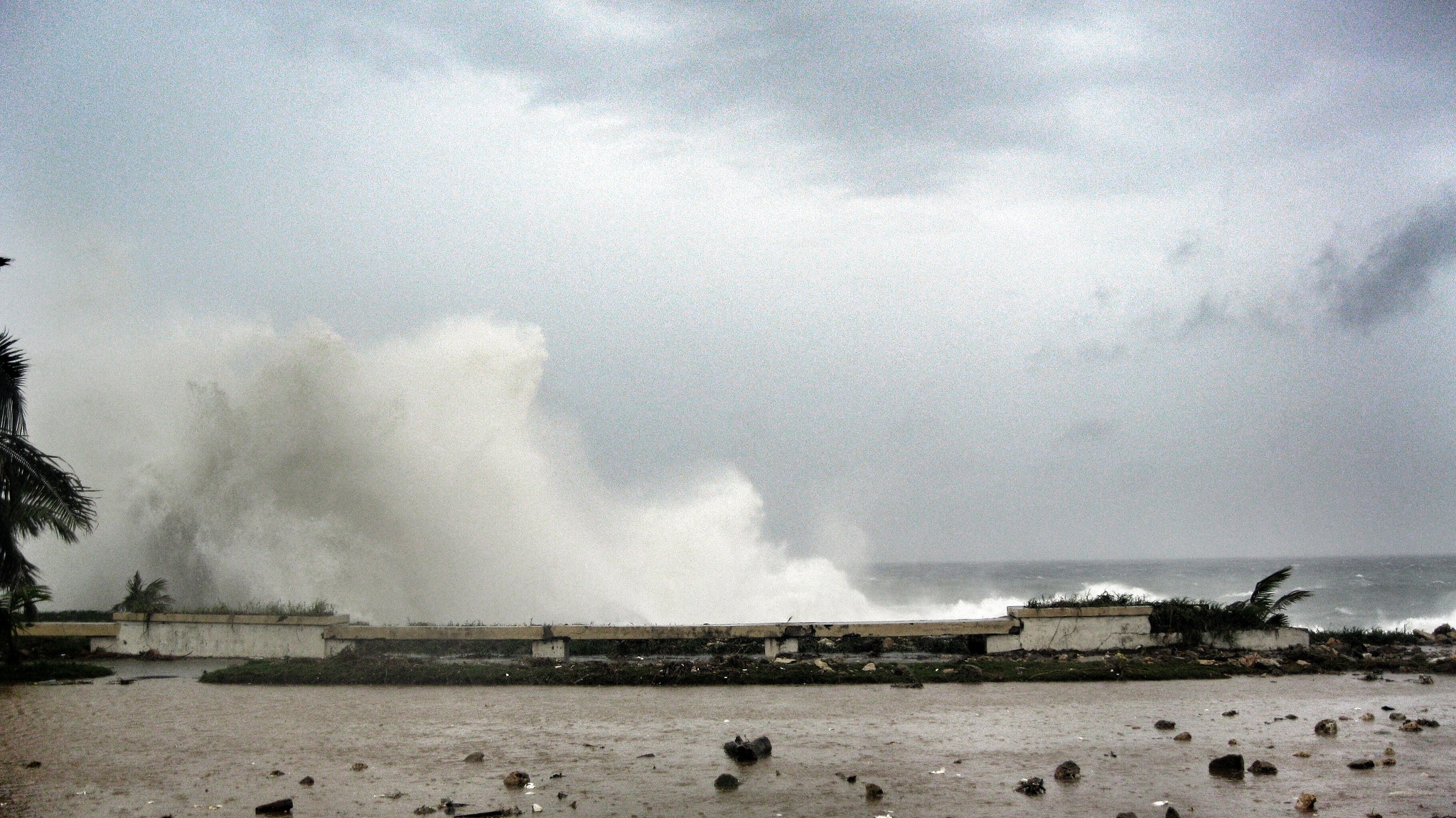 On Friday 24 August waves from Tropical Storm Isaac were battering the coast of the Dominican Republic, exact location is unknown.